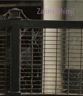 Zarina Bhimji monograph [2012]